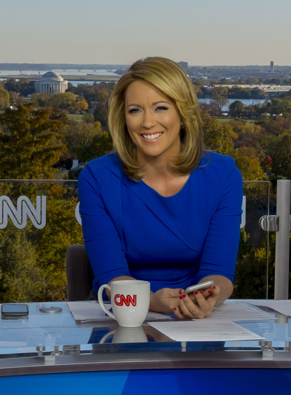 Brooke Baldwin on set in DC I TOOK THE PHOTOGRAPH. I OWN THE PHOTOGRAPH. THEREFORE I AM ENTITLED TO USE IT ANY WAY I PLEASE. THIS WAS ALREADY MADE PERFECTLY CLEAR ON THE TALK PAGE SO IT'S VERY BORING TO BE ON THE RECEIVING END OF AN IDENTICAL AND INCORRECT ACCUSATION.